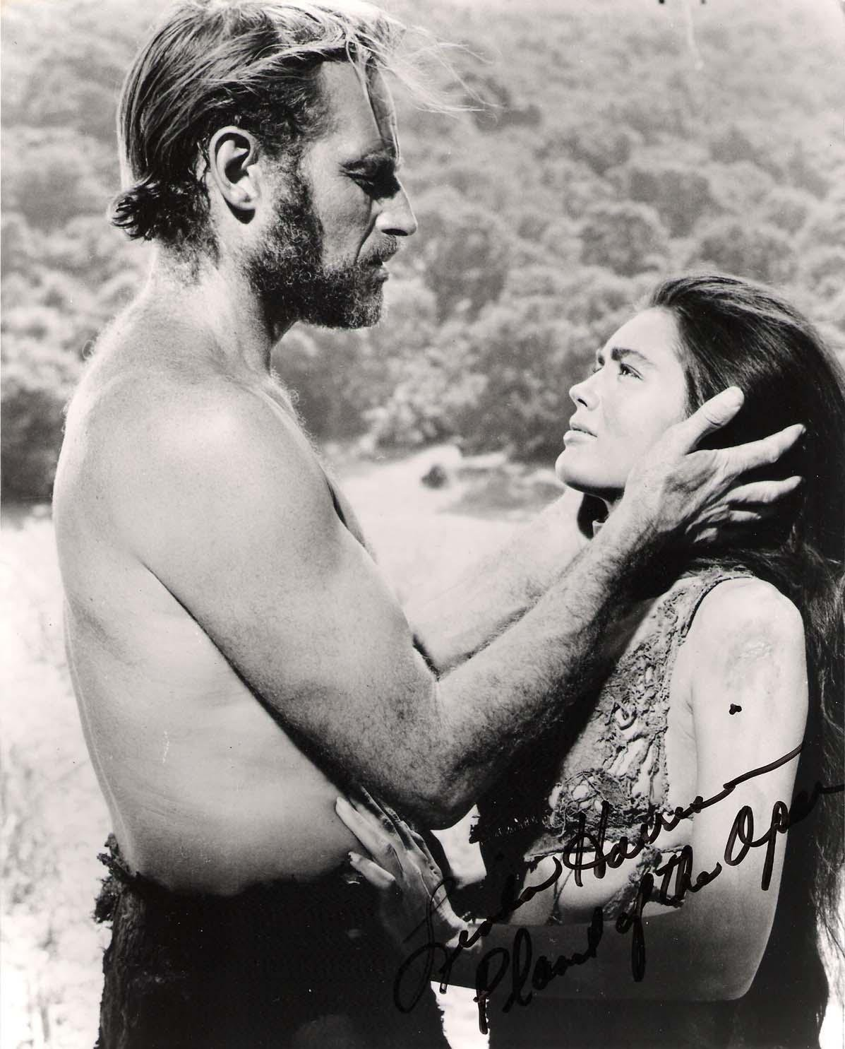 Charlton Heston and Linda Harrison in the classic 1968 film Planet of the Apes